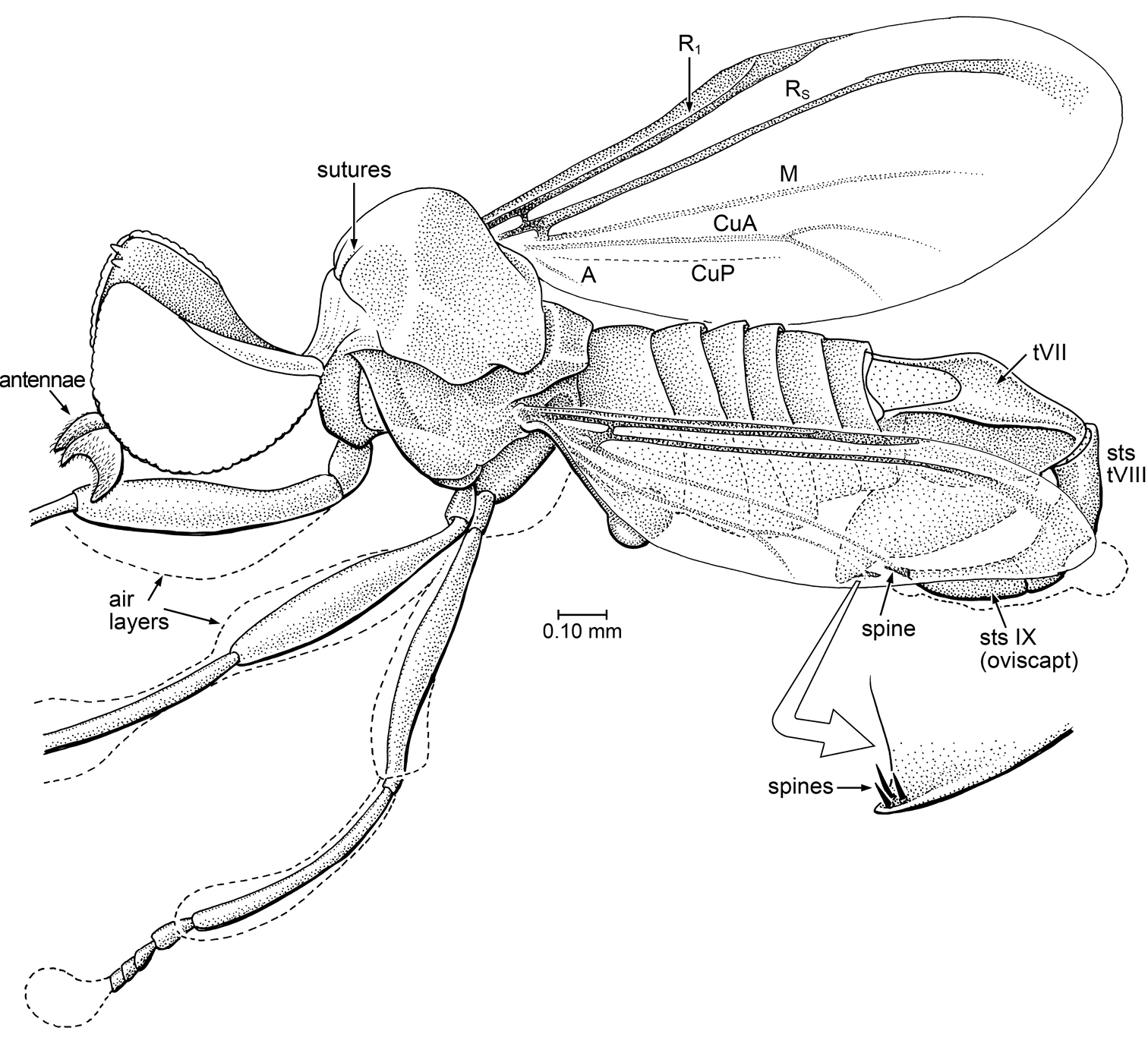 Tethepomyia zigrasi Grimaldi & Arillo, (Tethepomyiidae) in Burmese amber, also showing ventral detail of distal portion of abdomen. Private collection of James Zigras. sts: syntergosternite.